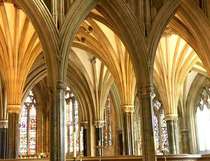 Wells Cathedral England - Interior